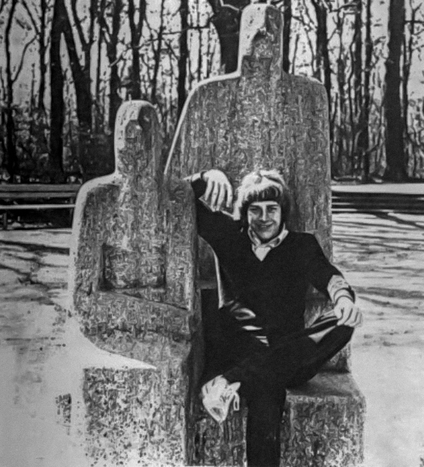 Karl Koch, SW Foto 1985 aus Privatarchiv Schnittwerk